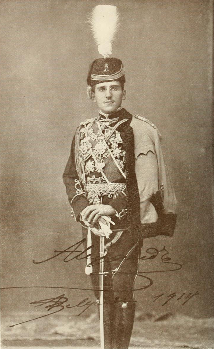 Serbian Prince and later Yugoslavian king Alexander Karađorđević.